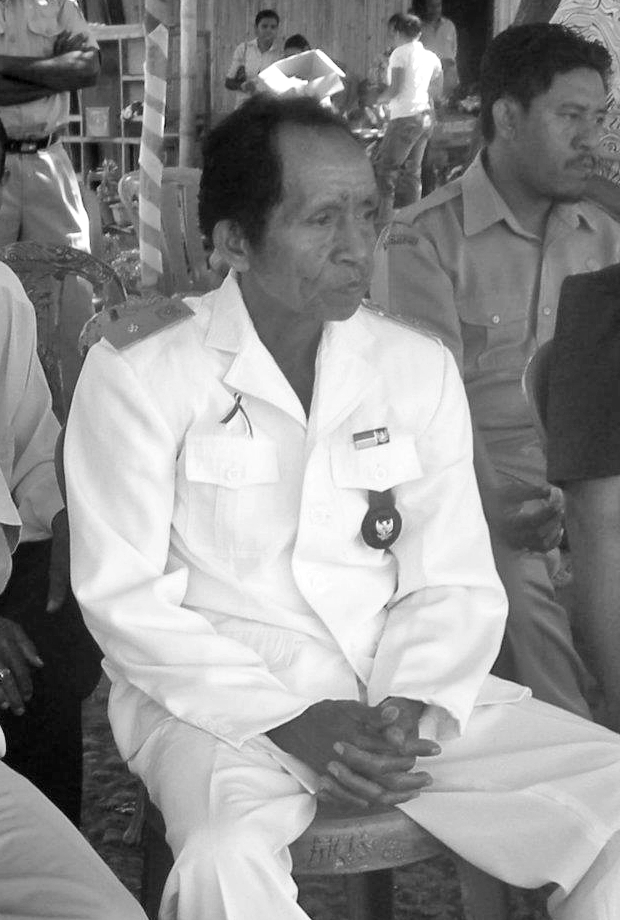 Pada sebuah kesempatan 17 Agustus 2011